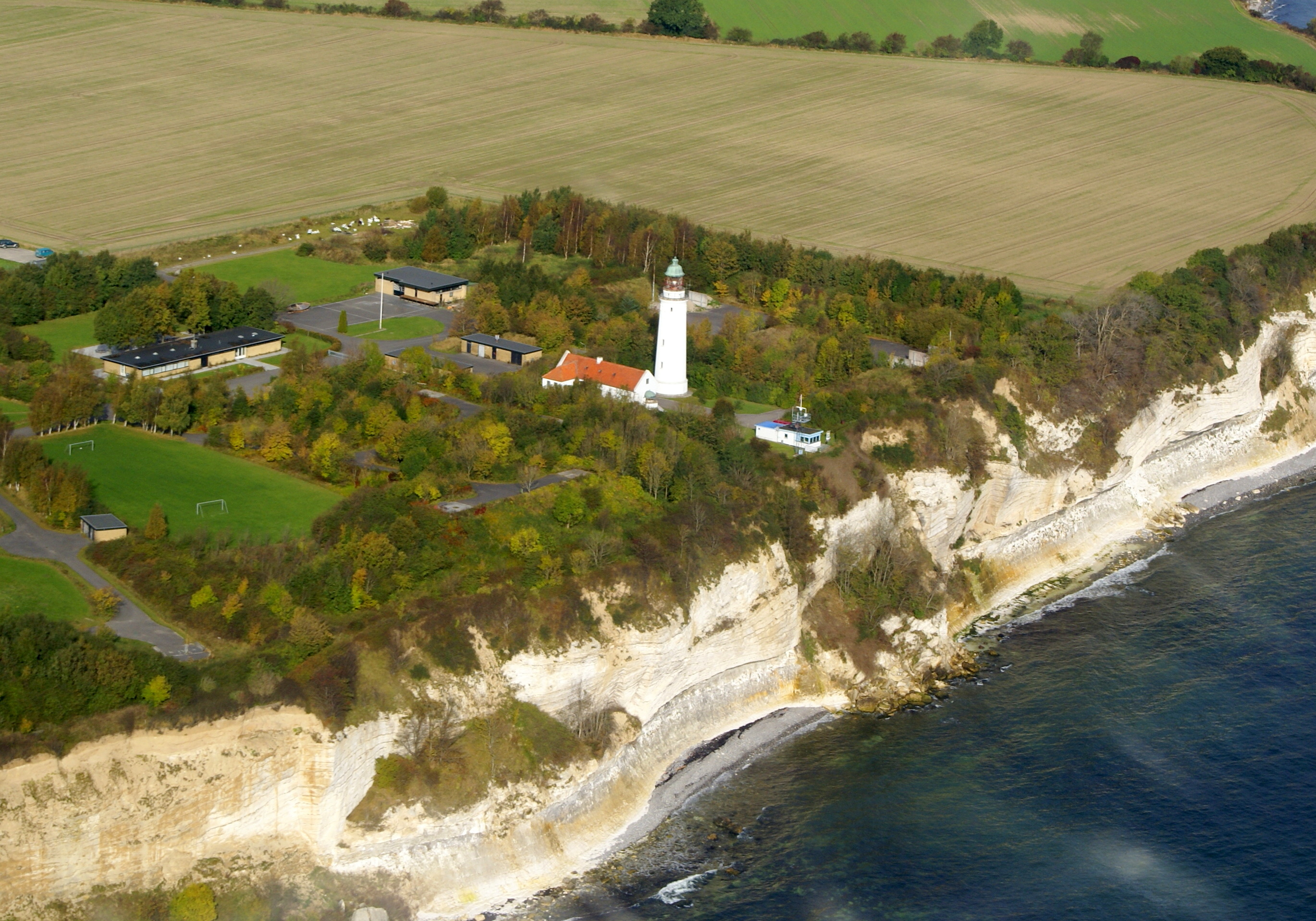 The lighthouse at Stevns, Denmark